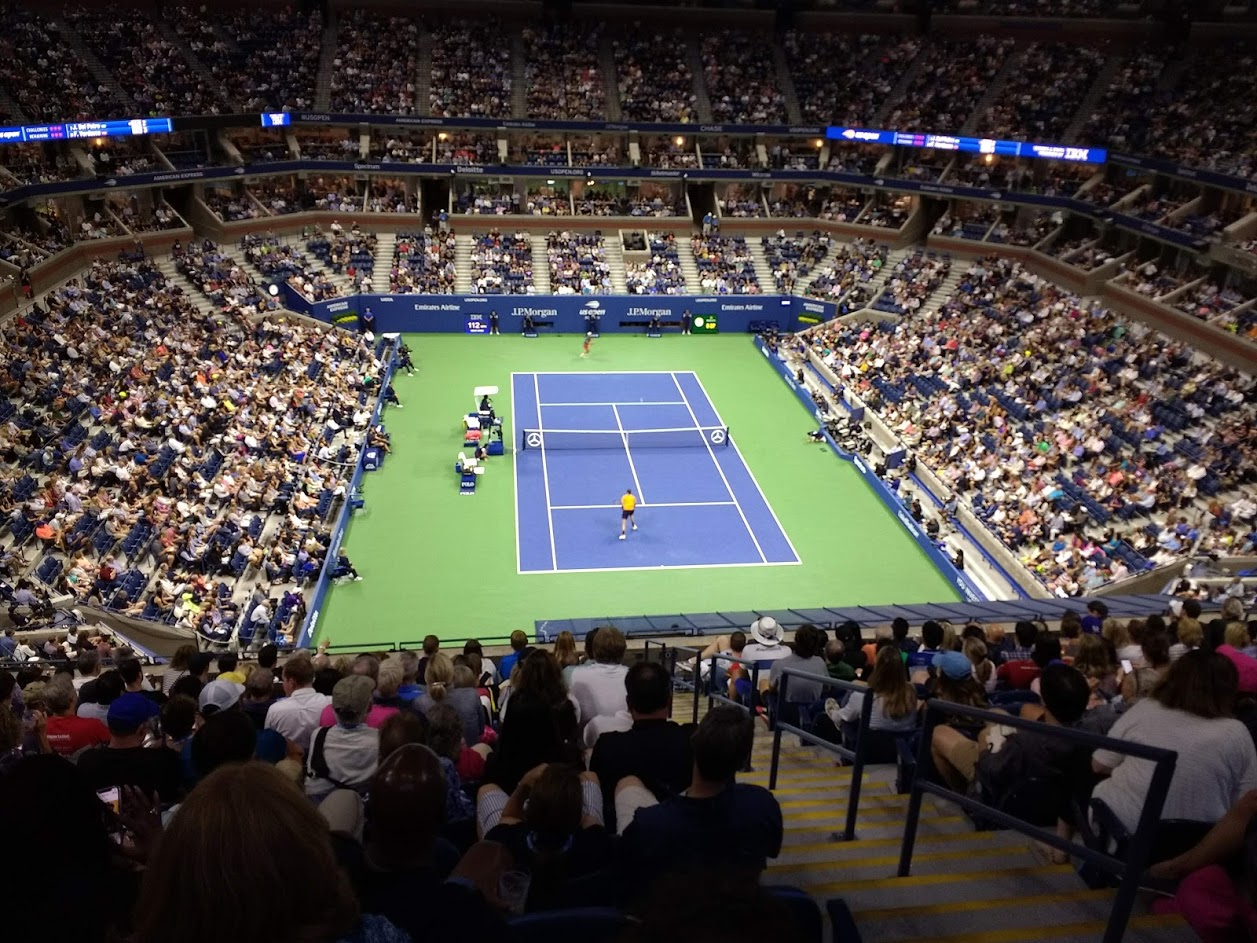 Arthur Ashe Stadium in 2018 with the roof open.